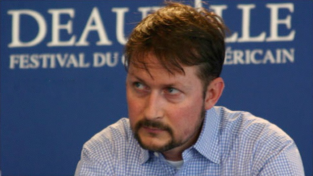 Director Todd Field at Deauville Film Festival Press Conference for Little Children